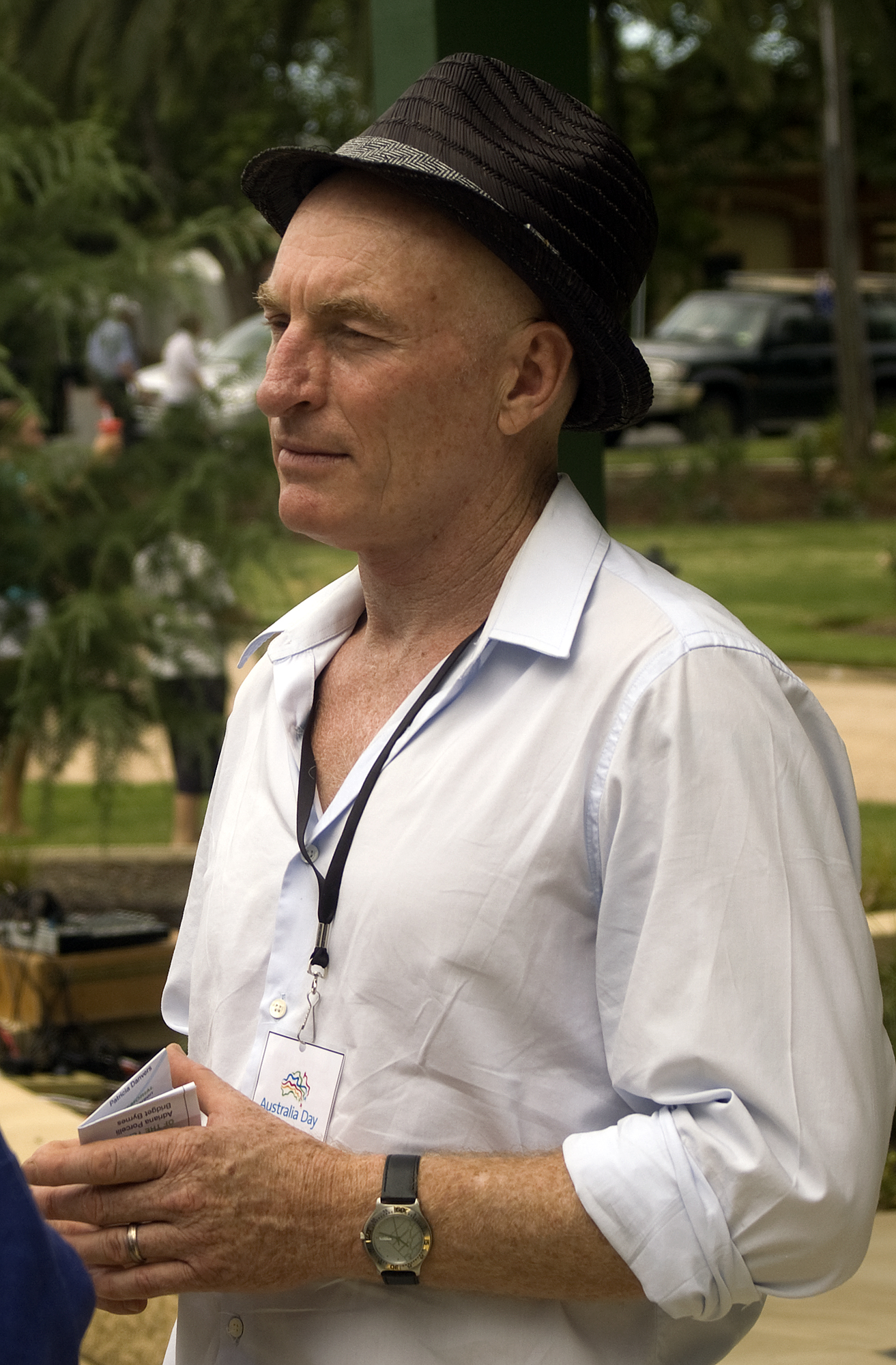 Australia Day Ambassador for the City of Wagga Wagga, Wayne Pigram after the Australia Day ceremony at the Victory Memorial Gardens.